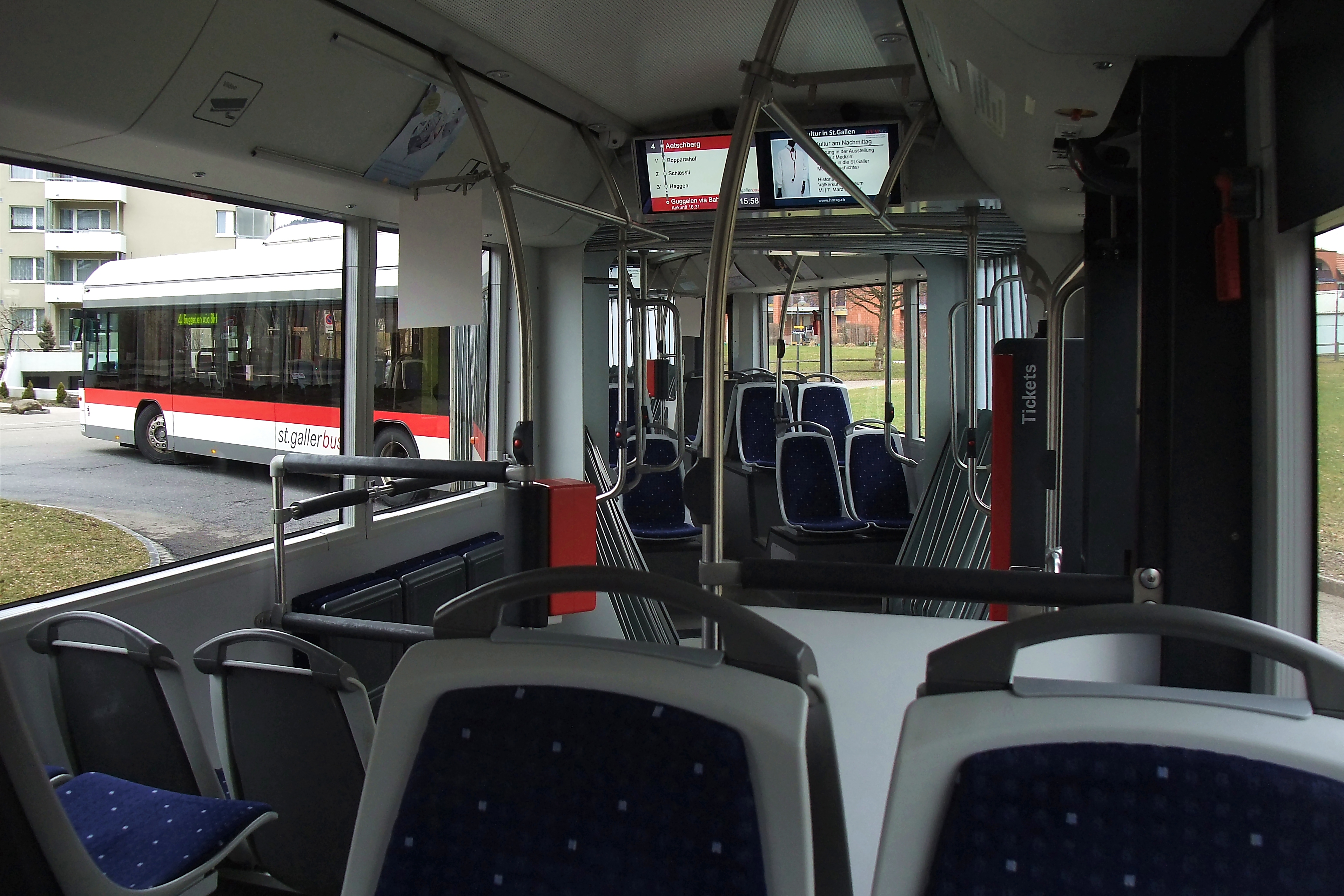 Interior of a Hess lighTram bi-articulated trolleybus, used by Verkehrsbetriebe St. Gallen.